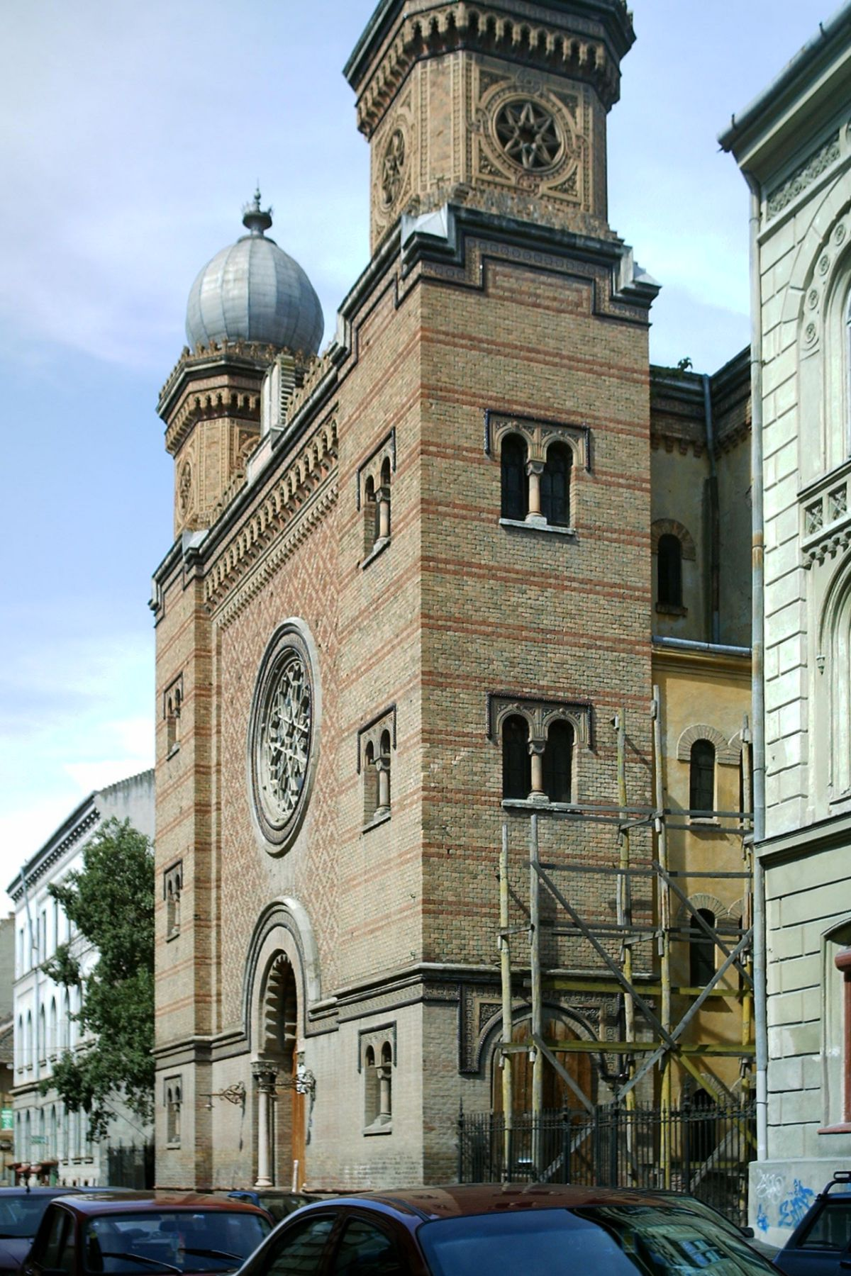 Cetate Synagogue in Timişoara, Romania